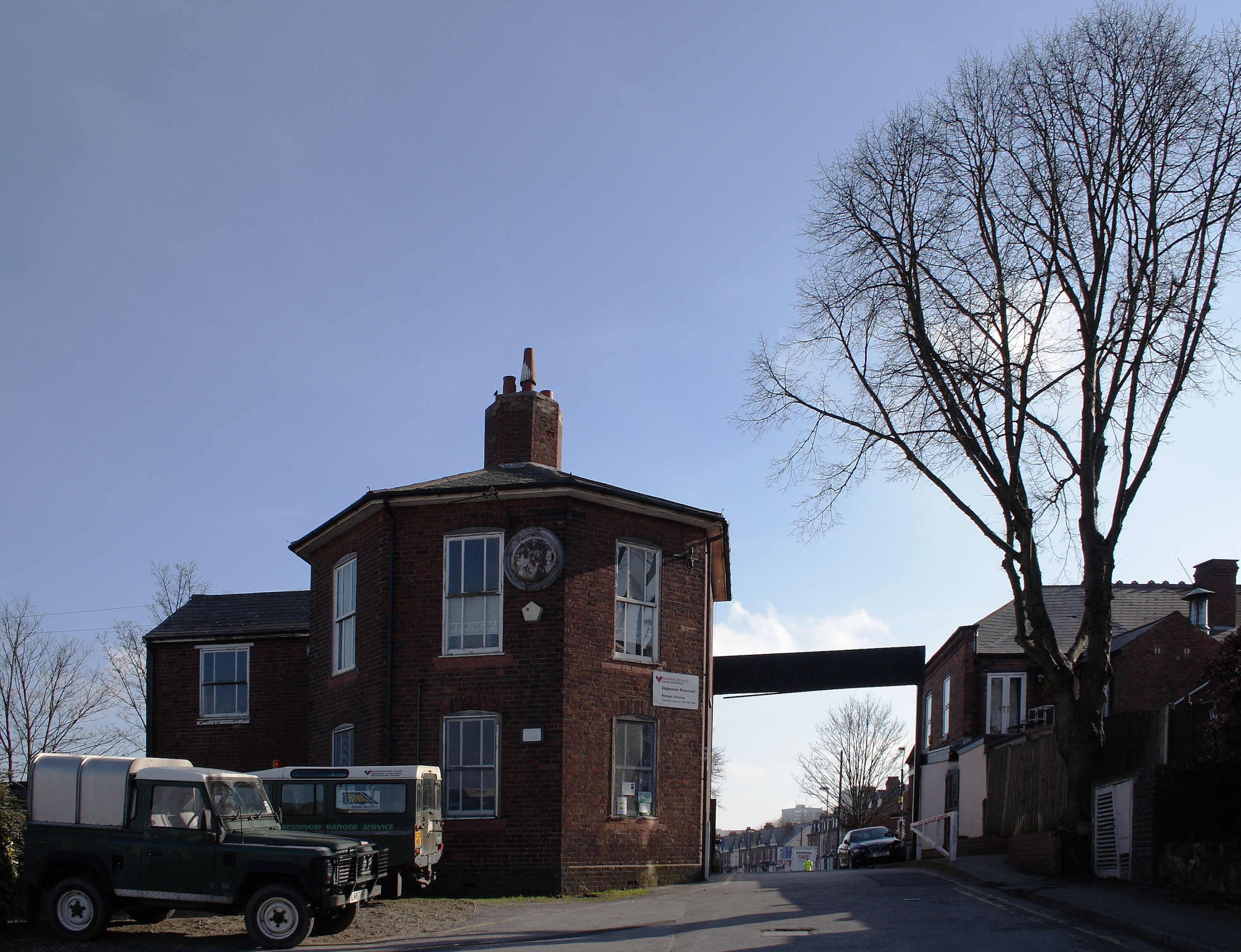 The Gatehouse of Rotton Park Reservoir, Edgbaston, Birmingham: built circa 1830 and probably designed by Thomas Telford.